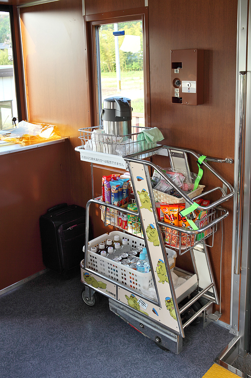 Vending cart on Aizu Mount Ecpress